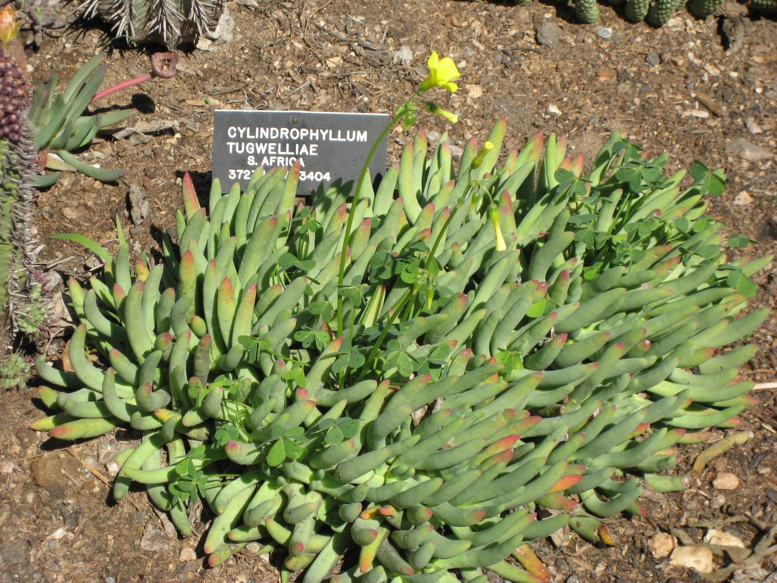 Photographed at Huntington Gardens (Los Angeles) in March